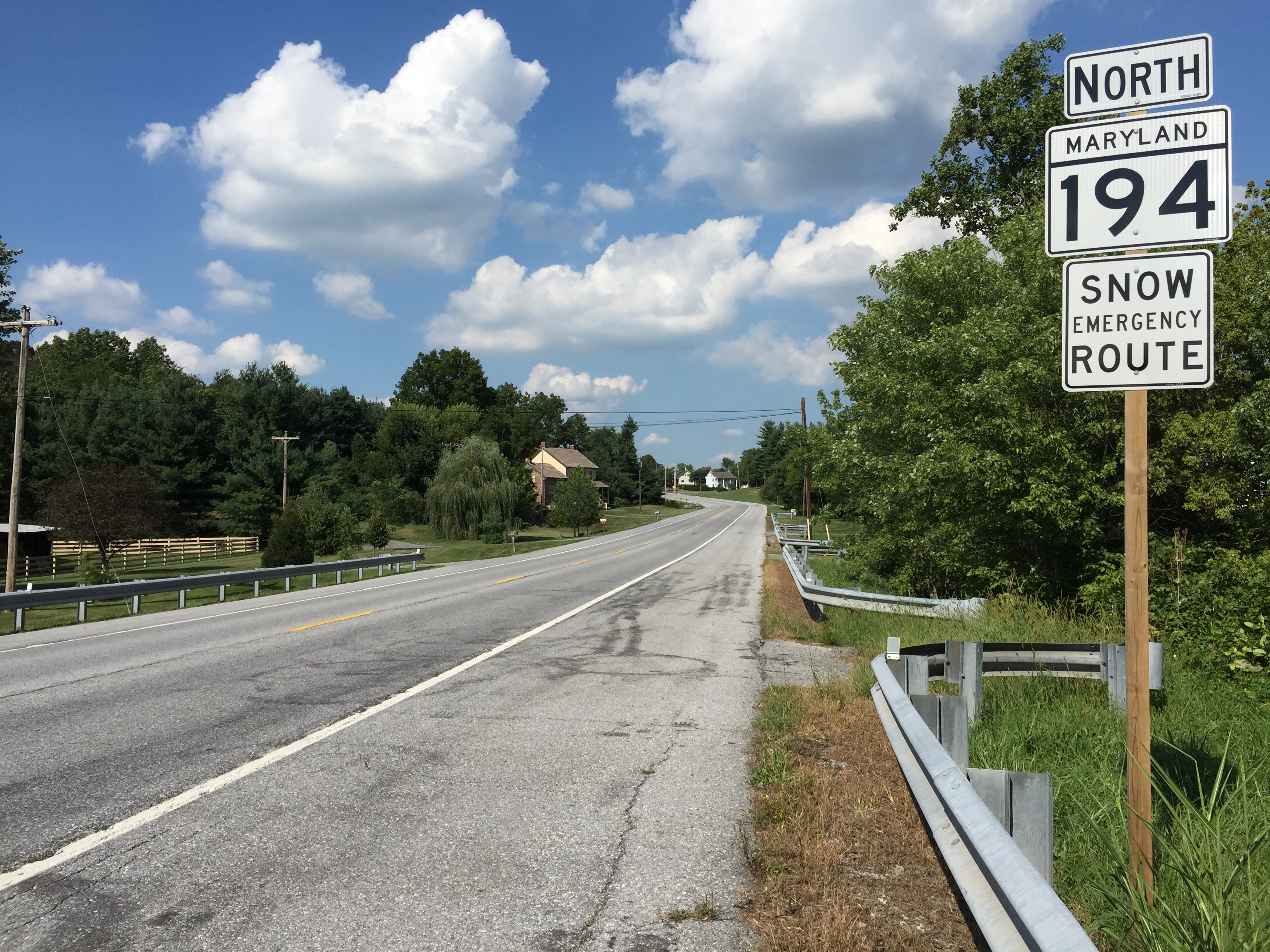 View north along Maryland State Route 194 (Francis Scott Key Highway) just north of the Little Pipe Creek in Keymar, Carroll County, Maryland